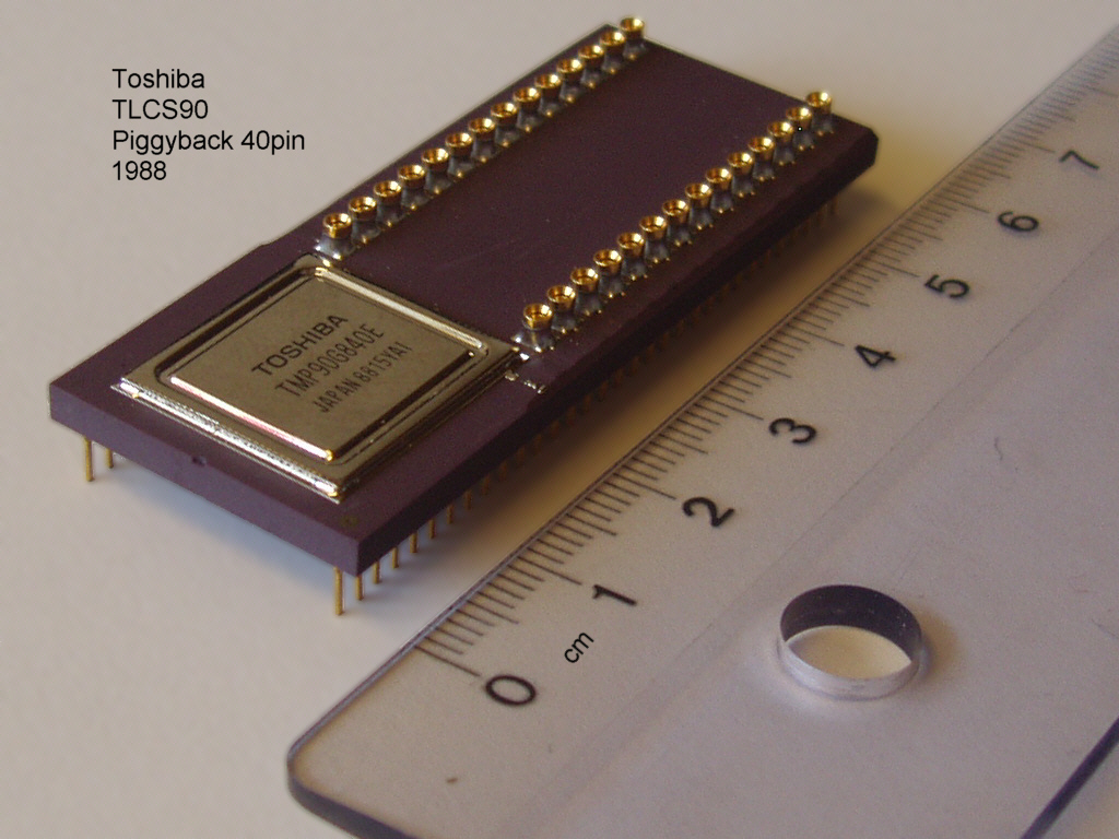 Ceramic DIL Package, 40 Pins + 28pin Socket, Toshiba TLCS90-TMP90G840E, 1988